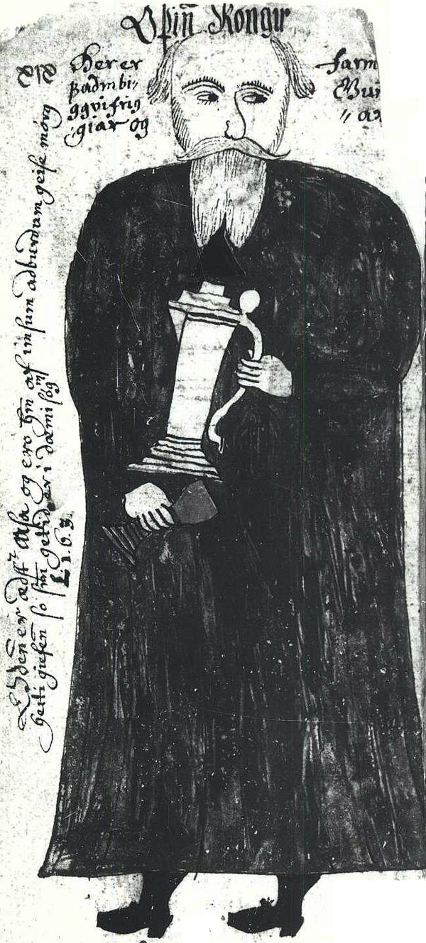 An illustration of the god Odin, from an Icelandic 17th century manuscript. A scan of a black and white photography.